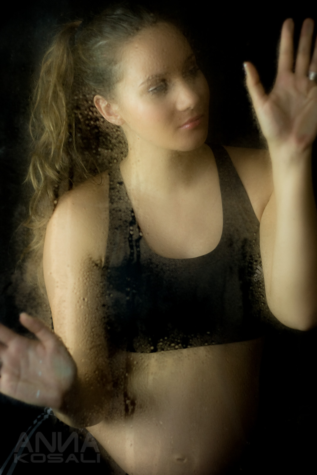 Pregnant Woman Portrait photo behind wet glass taken by Anna Kosali. Model: Maria Paz.